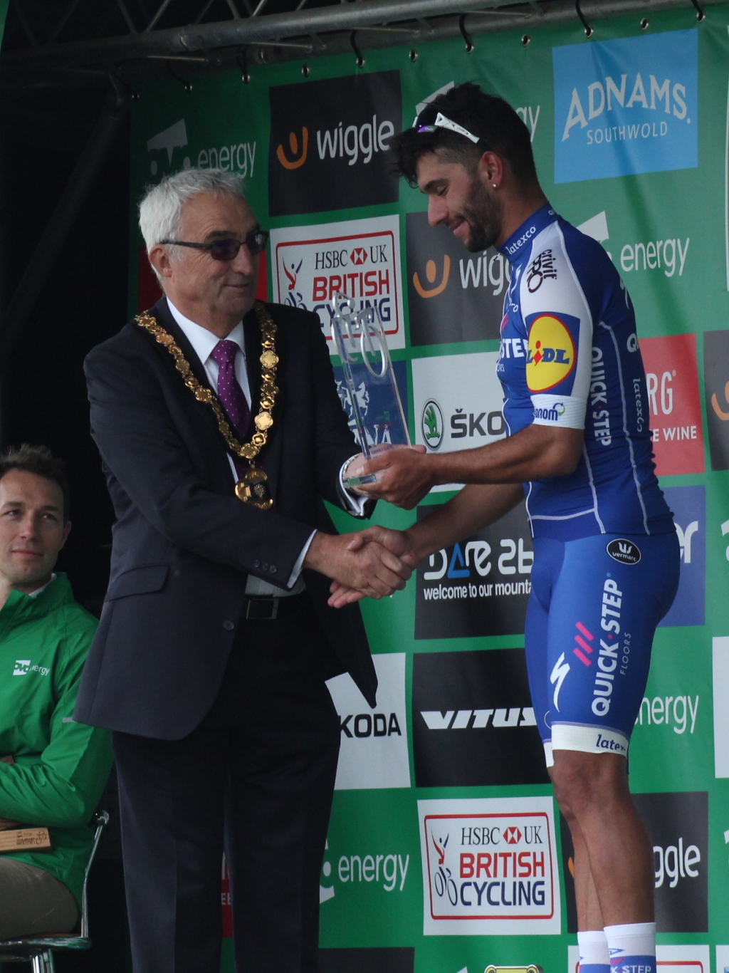 Fernando Gaviria from the Quick Step Flors team is presented with his trophy for winning stage 4 of the 2017 Tour of Britain which finished in Newark-on-Trent.